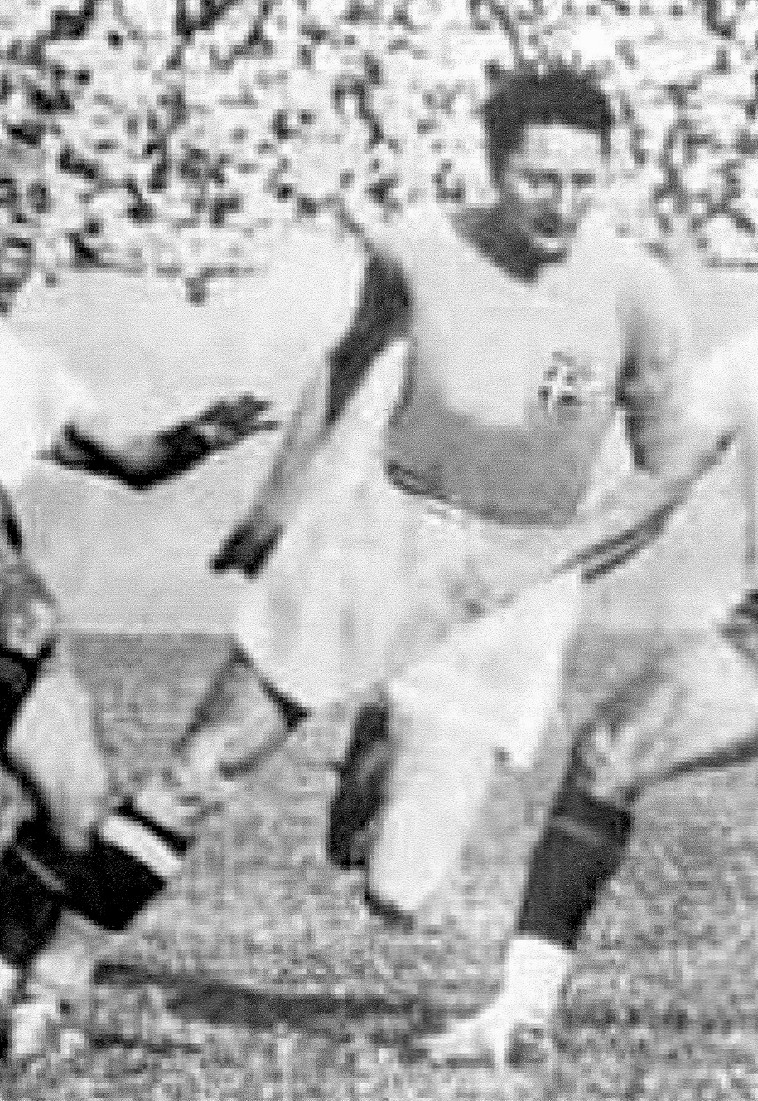 The Italian footballer Silvio Piola playing for Italy's national football team